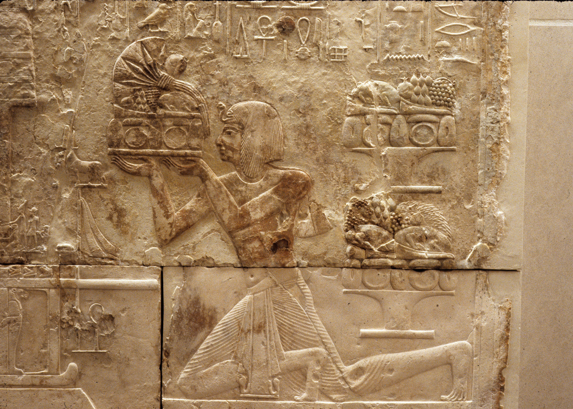 Relief, Ramesses I Chapel, West wall